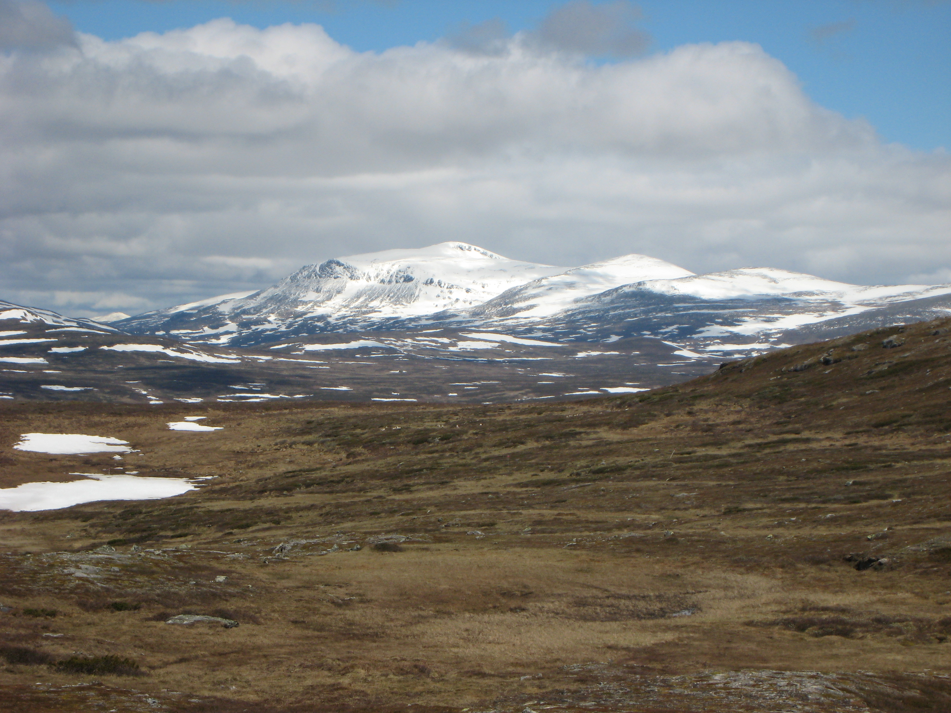 Härjångsfjället